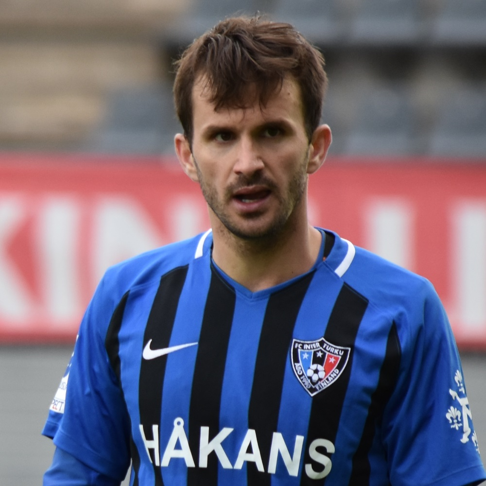 Football player Ivan Sesar (FC Inter Turku)